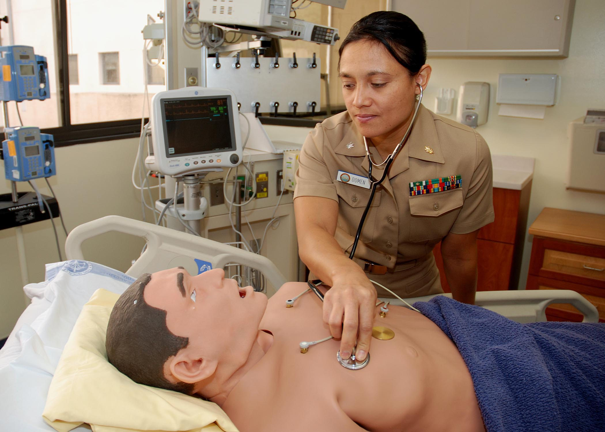 U.S. Navy Cmdr. Ramona Domen, assistant director, Navy Medical Center San Diego, Calif., checks the mobile adult trainer mannequin's heart and lungs during a ceremony commemorating the facility's new Medical and Surgical Simulation Center (MSSC) Dec. 12, 2008, in San Diego. MSSC enables medical personnel to test their skills on simulated patients. The mannequin, which recently was featured on the television series "Grey's Anatomy," is the most advanced simulated human patient. (U.S. Navy photo by Mass Communications Specialist 2nd Class Greg Mitchell/Released)